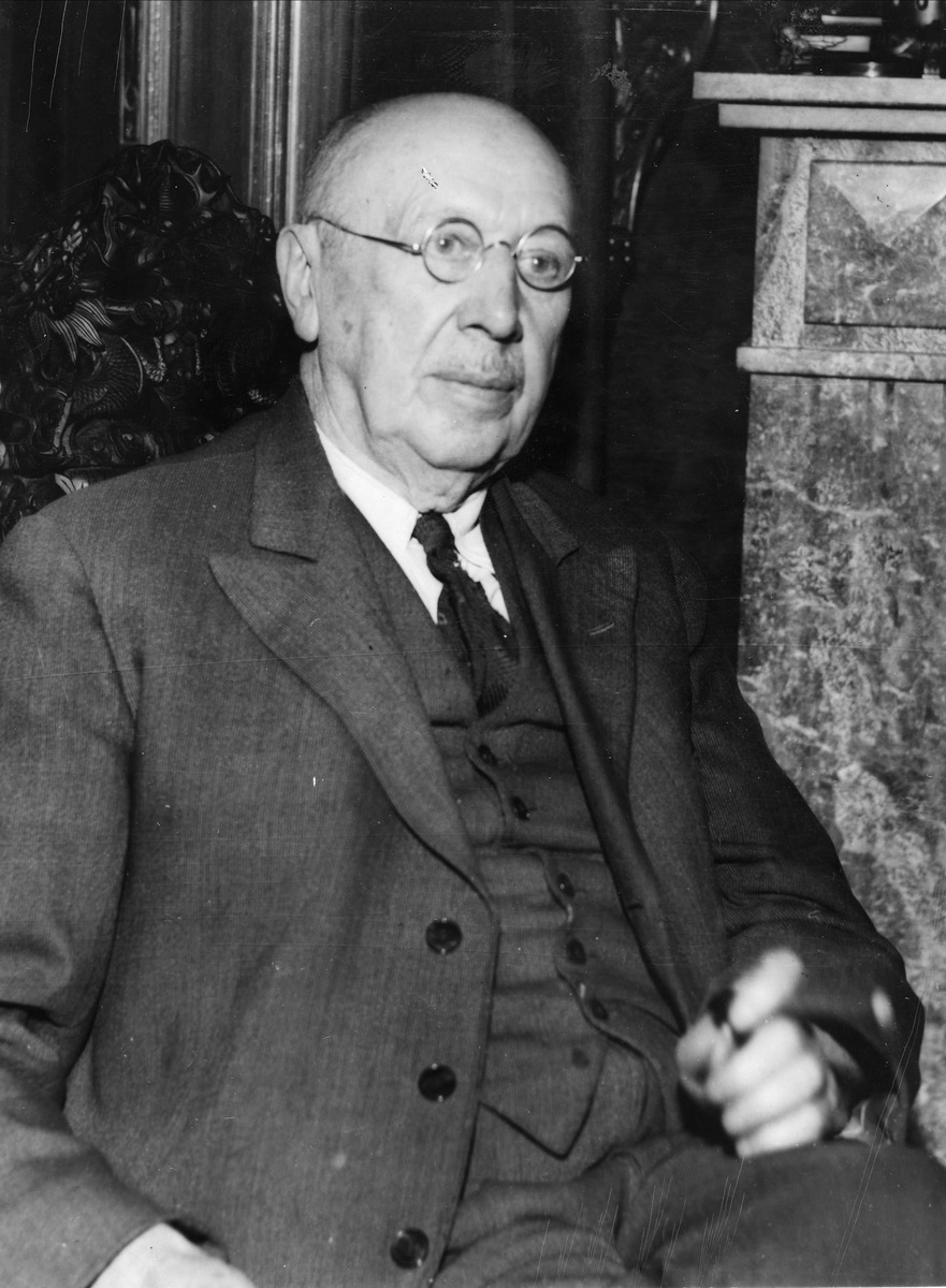 Christopher Hornsrud. Norwegian politician for the Labour Party. Prime Minister, party leader.